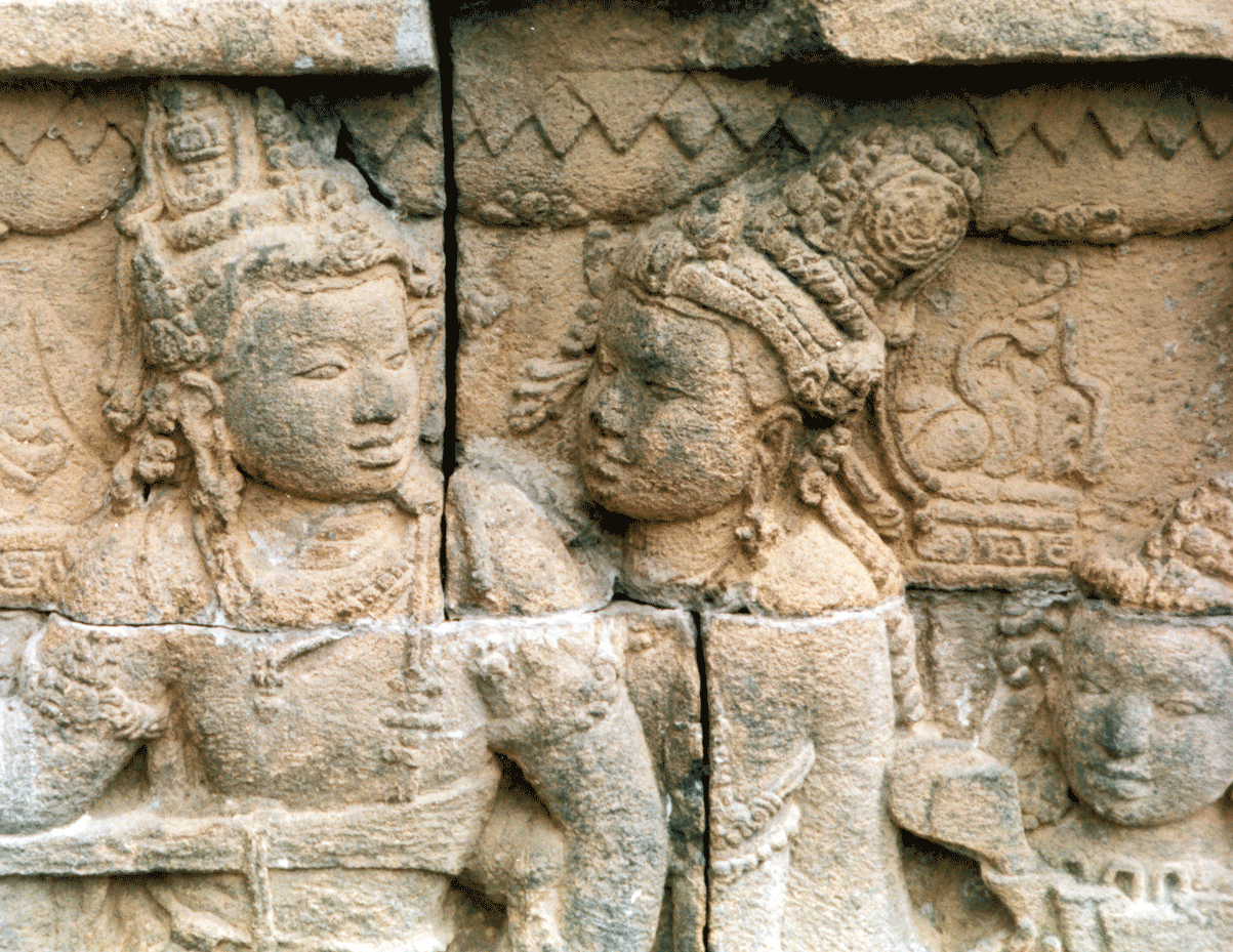 Photo of relief sculpture from Borobodur Temple, Indonesia. Image taken by user bwmodular in 1988.